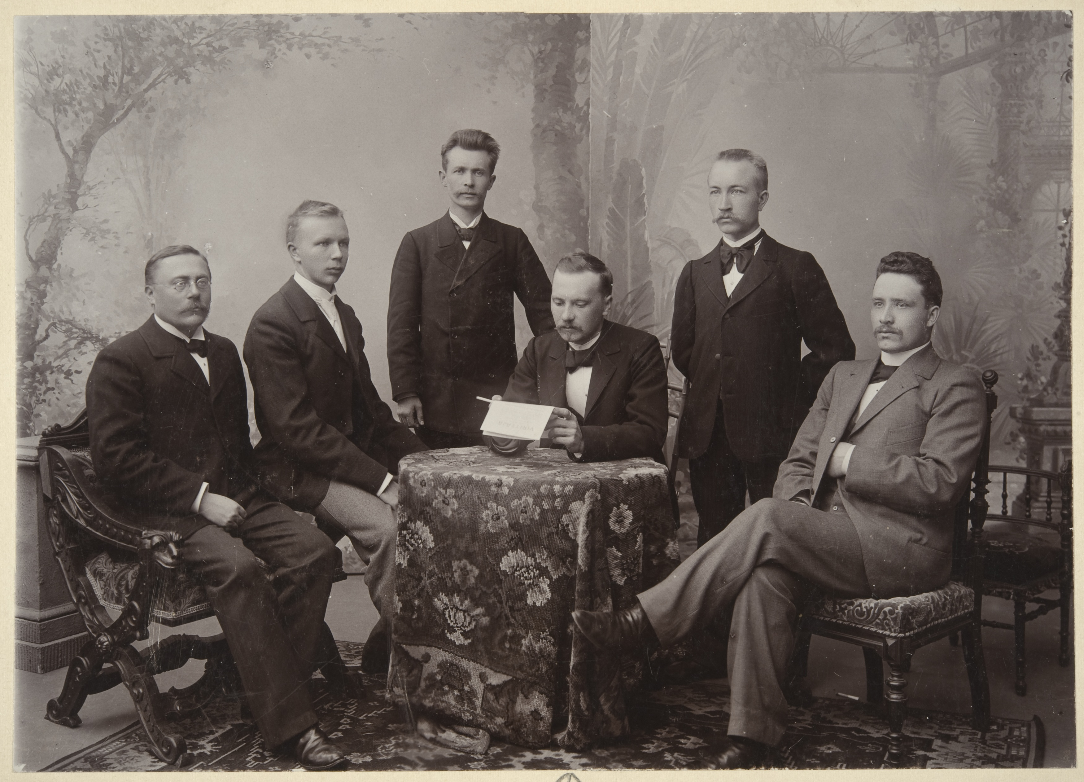 Photograph of Finnish linguists who founded Virittäjä journal: Aukusti Niemi, Uuno Karttunen, Vihtori Alava, Kustaa Karjalainen, Emil Tunkelo, and Juho Vennola.